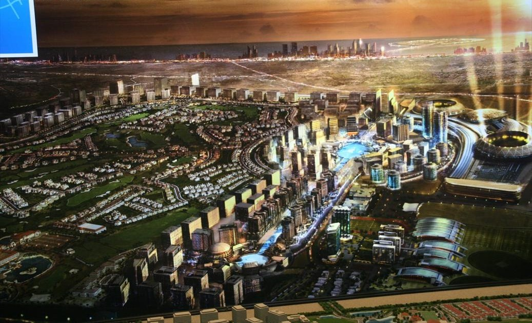 This is a photo showing a model of Dubai Sports City in Dubai, United Arab Emirates on 8 May 2007. The model was at the Cityscape Abu Dhabi 2007.